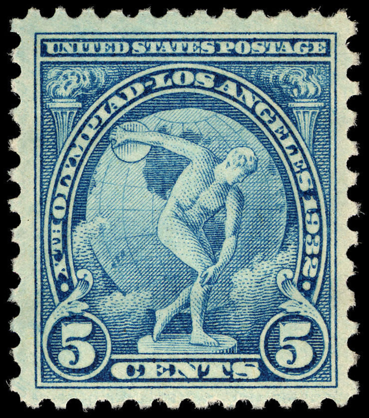 Xth Olympiad Los Angeles Discus Thrower 5-cent 1932 issue U.S. stamp, featuring the sculpture 'Discobolus' by 5th century Greek sculptor Myron. The Games of the X Olympiad (1932 Summer Olympics) were held in Los Angeles from July 30-August 14, 1932.